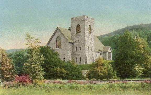 The Joseph Stickney Memorial Chapel, Bretton Woods, White Mountains, New Hampshire. It was built in 1906 by the widow of Joseph Stickney, builder of The Mount Washington Hotel, who died in 1903.